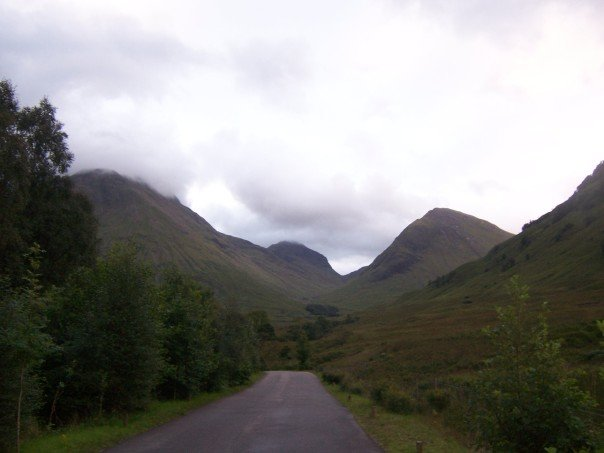 Glencoe